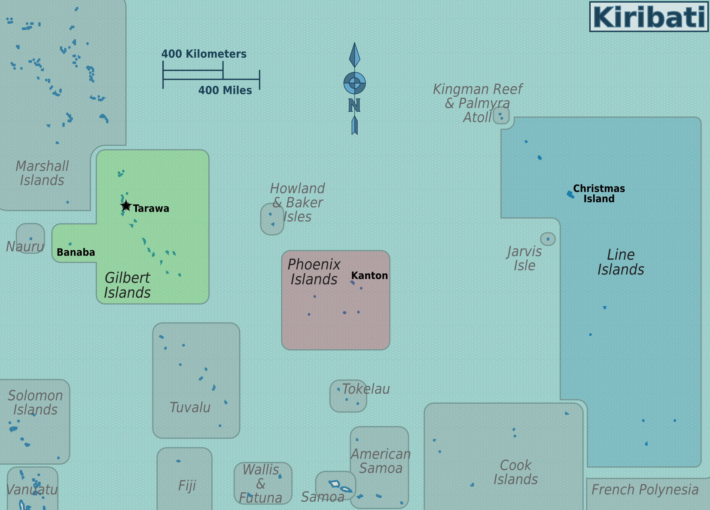 Kiribati regions map for use on Wikivoyage, English version